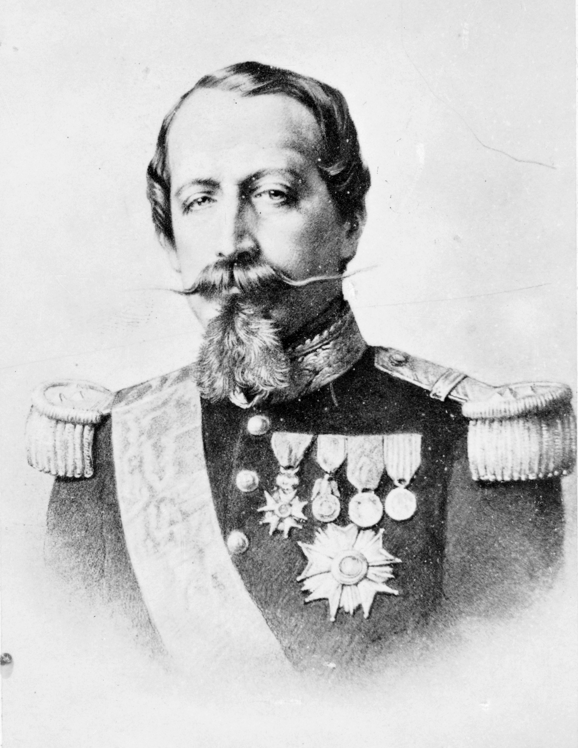 Napoleon III, head-and-shoulders portrait, facing front